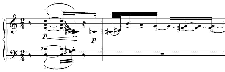 Overture to Wozzeck by Alban Berg. First two bars (piano reduction).